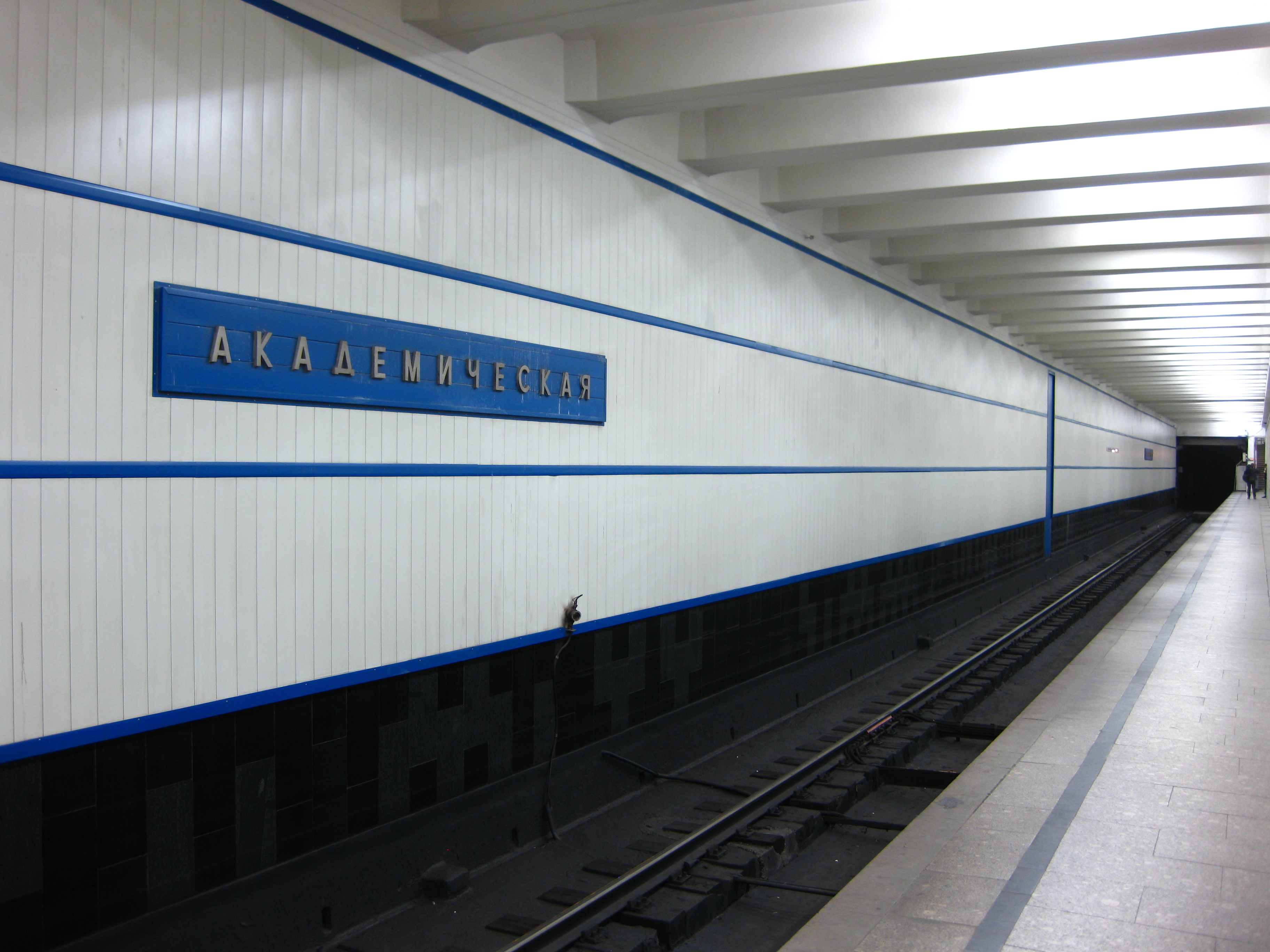 Akademicheskaya subway station.